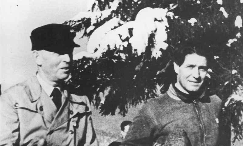 Portrait of Romanian officer and future military dictator Ion Antonescu (left) and fascist leader Corneliu Zelea Codreanu in 1935.